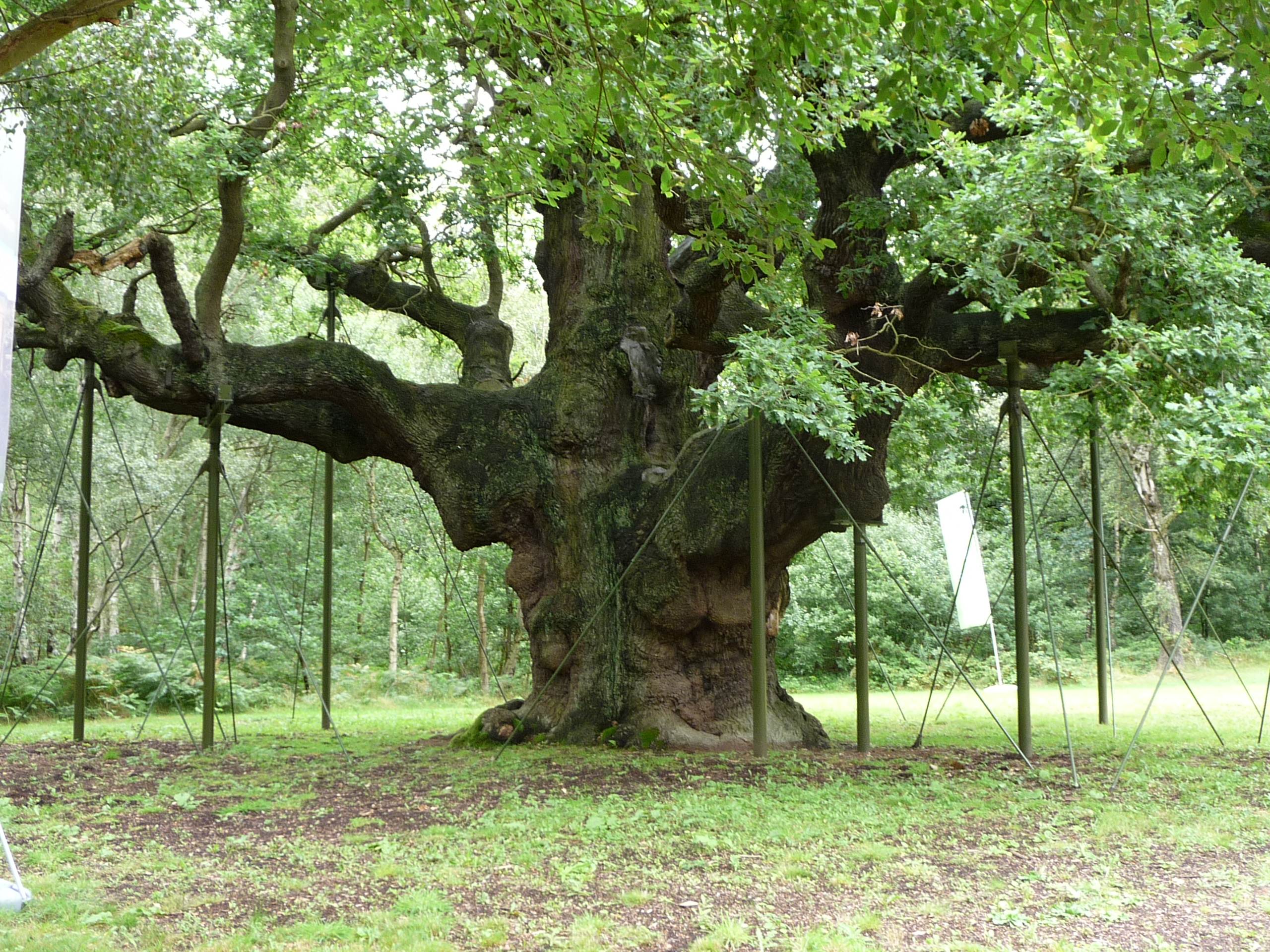 Major Oak